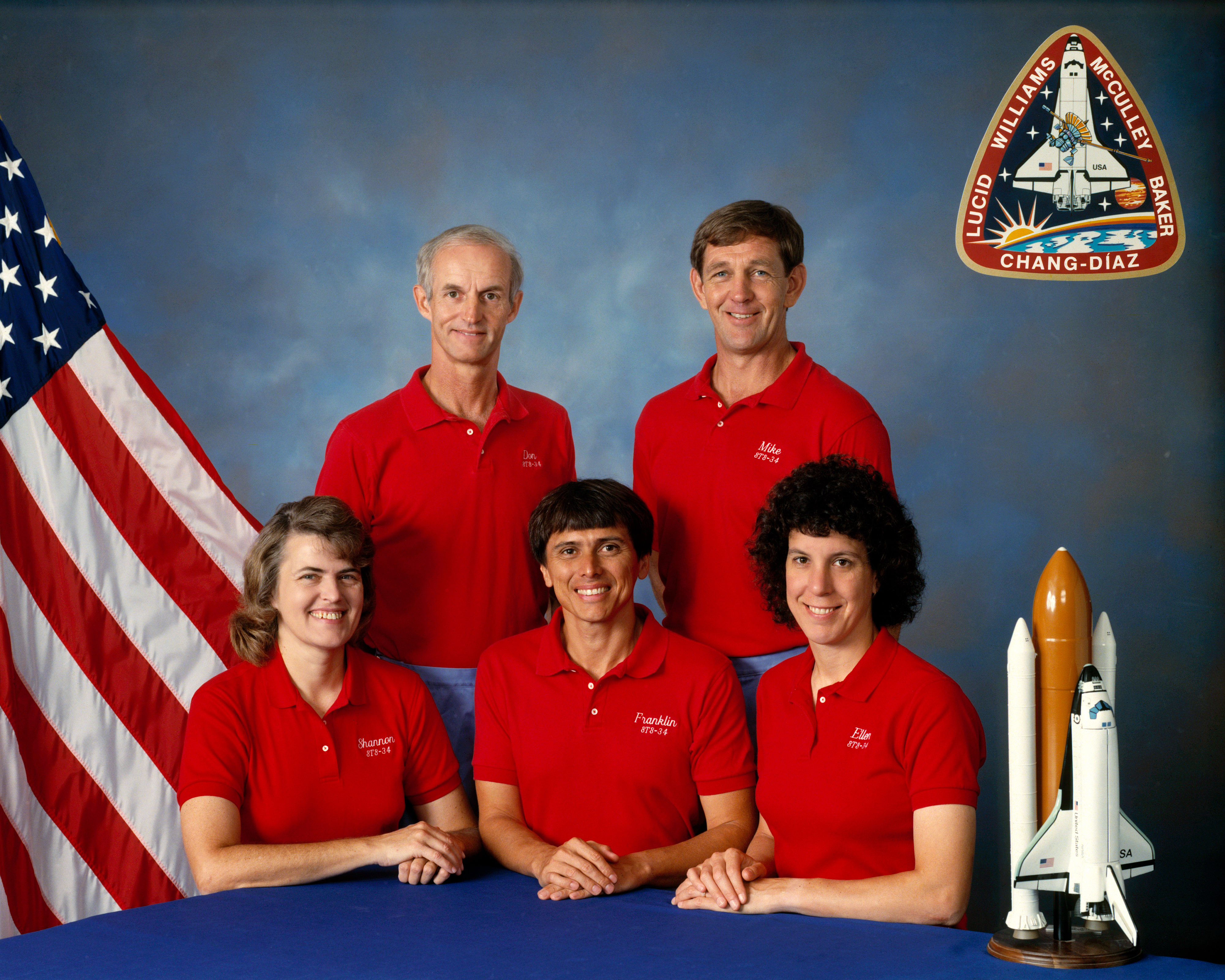 The STS-34 crew portrait includes 5 astronauts. Pictured left to right are Shannon W. Lucid, mission specialist; Donald E. Williams, commander; Franklin R. Chang-Diaz, mission specialist; Michael J. McCulley, pilot; and Ellen S. Baker, mission specialist. The crew of 5 launched aboard the Space Shuttle Orbiter Atlantis on October 18, 1989 at 12:53:40pm (EDT). The primary payload was the Galileo Jupiter Spacecraft and attached inertial upper stage (IUS). Deployed 6 hours and 30 minutes into the flight, the IUS stages fired, boosting Galileo on trajectory for a 6 year trip to Jupiter.